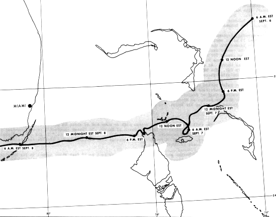 Zoomed in track of Hurricane Betsy as it moved through the Bahamas based on radar analysis conducted by the United States Weather Bureau. The shaded region indicates the total width of the eye.